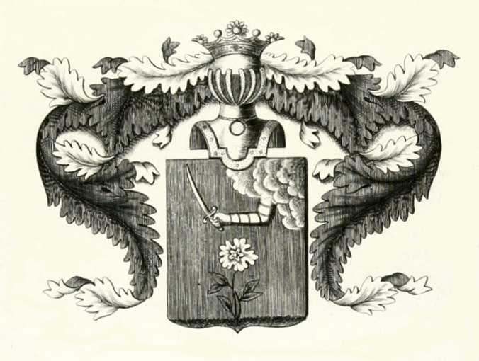 This (more than) 200 year old image has been reformatted, so it became a personal creation, with no rights attached